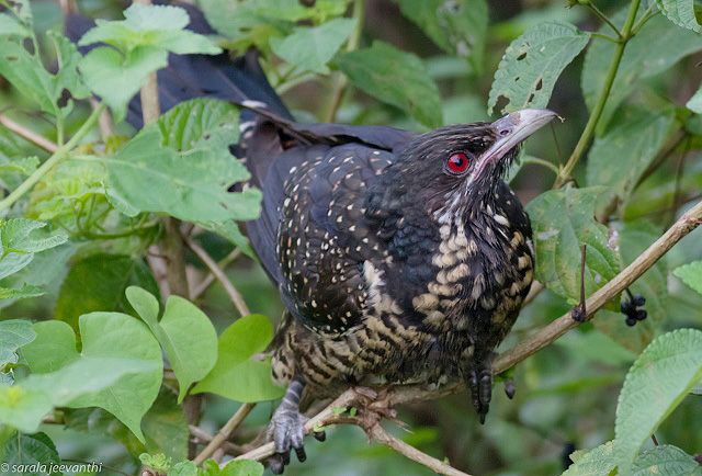 Hambantota